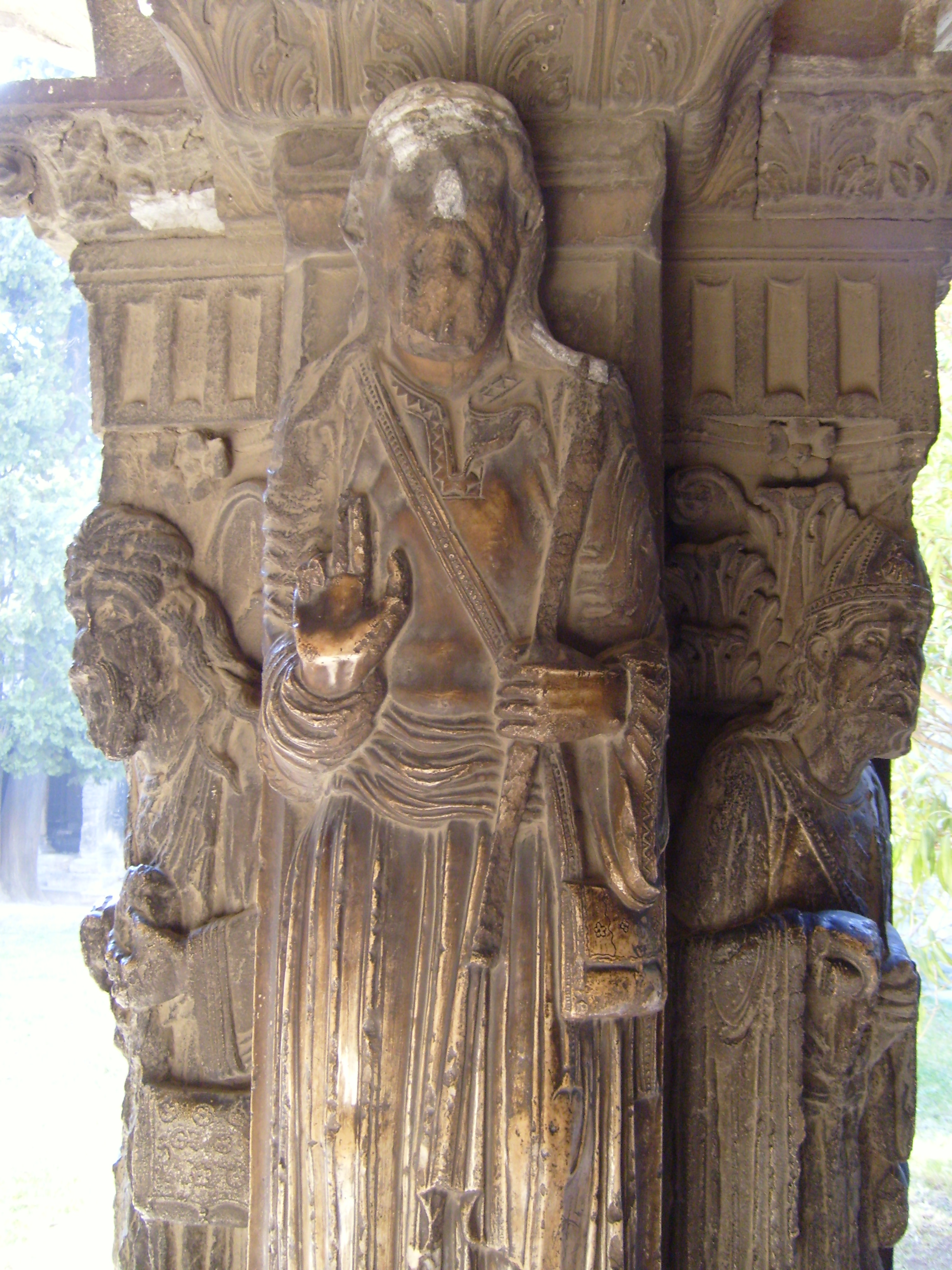 Image of St. Trophime on column of cloister, St. Trophime Church, Arles, France